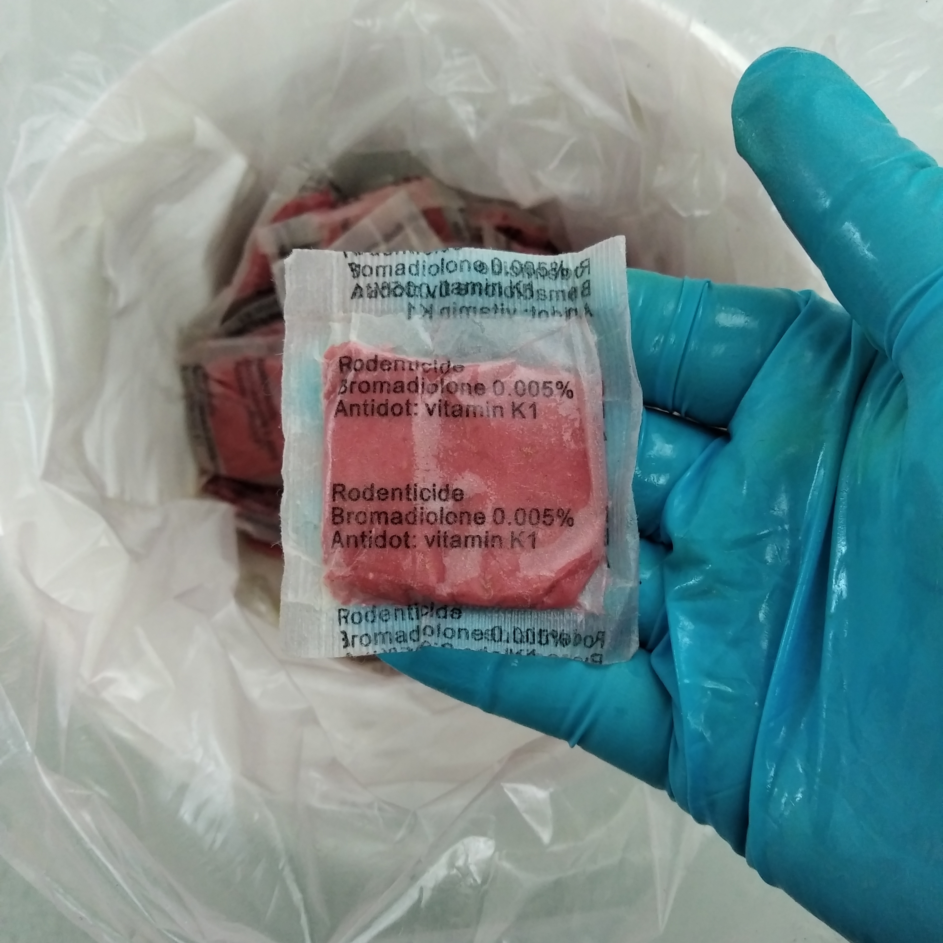 Bromadiolone is a potent anticoagulant (blood thinners) rodenticide (rat poison). Ratimor brand.